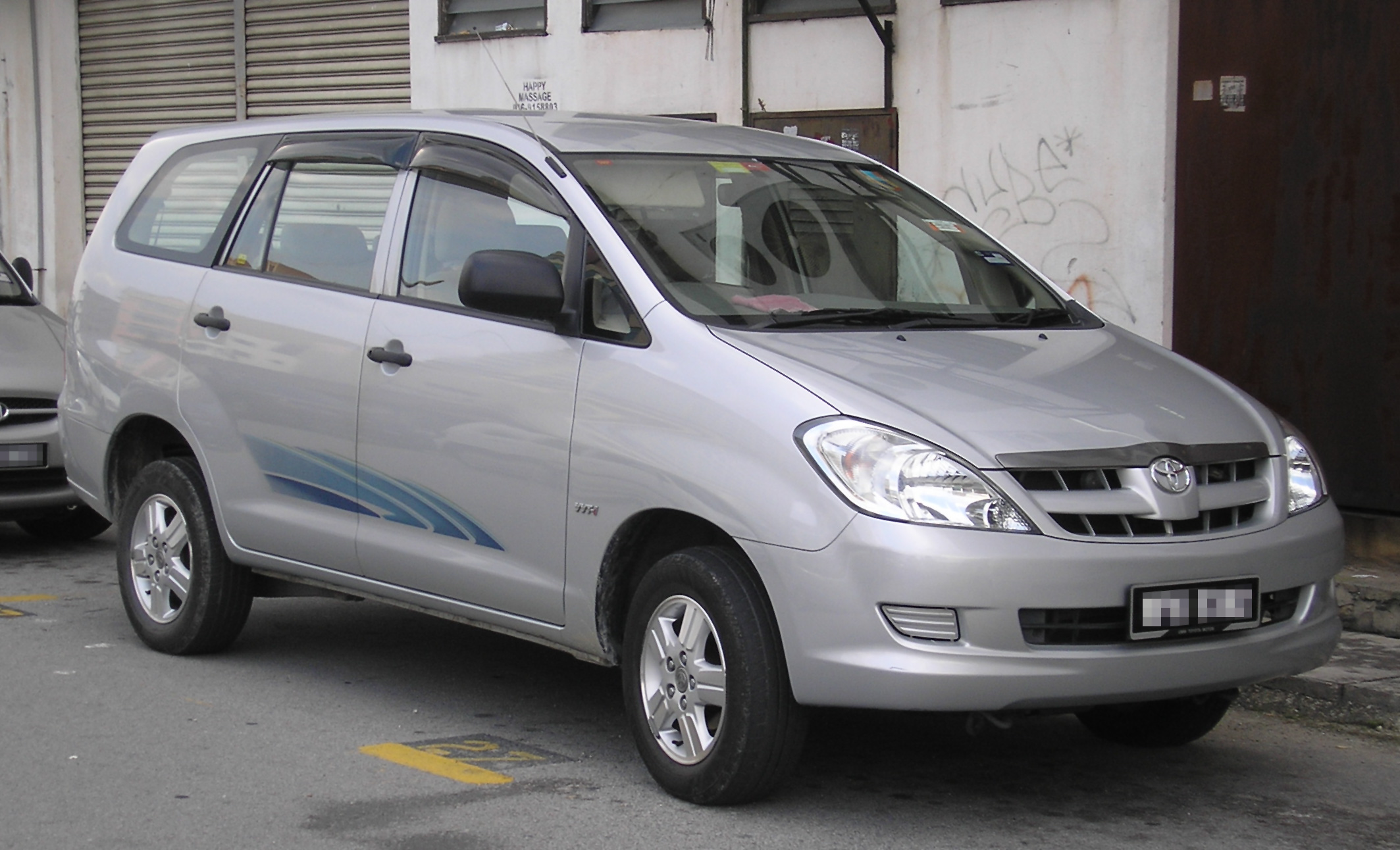 The front of a first generation Toyota Innova, in Kajang, Selangor, Malaysia.